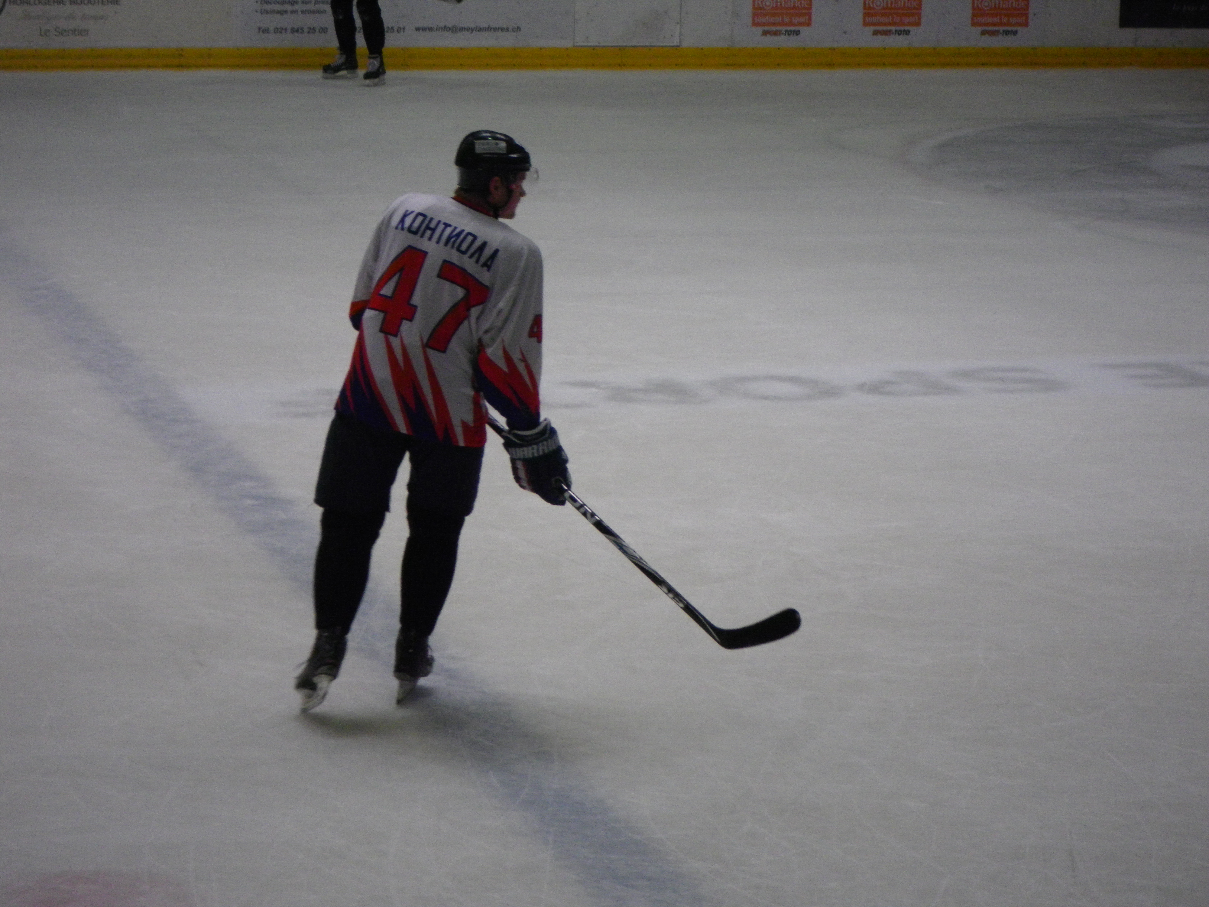 Petri Kontiola, finnish ice hockey player with Metallurg Magnitogorsk